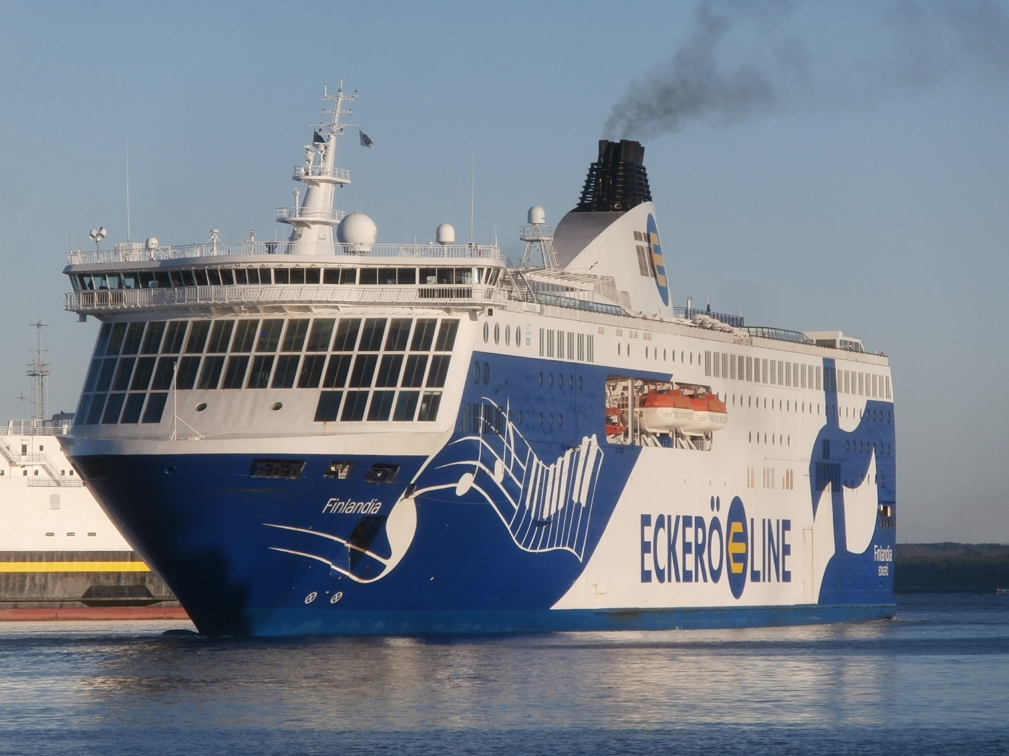 Finlandia departing Tallinn 4 December 2016 (Sea Wind in the background)